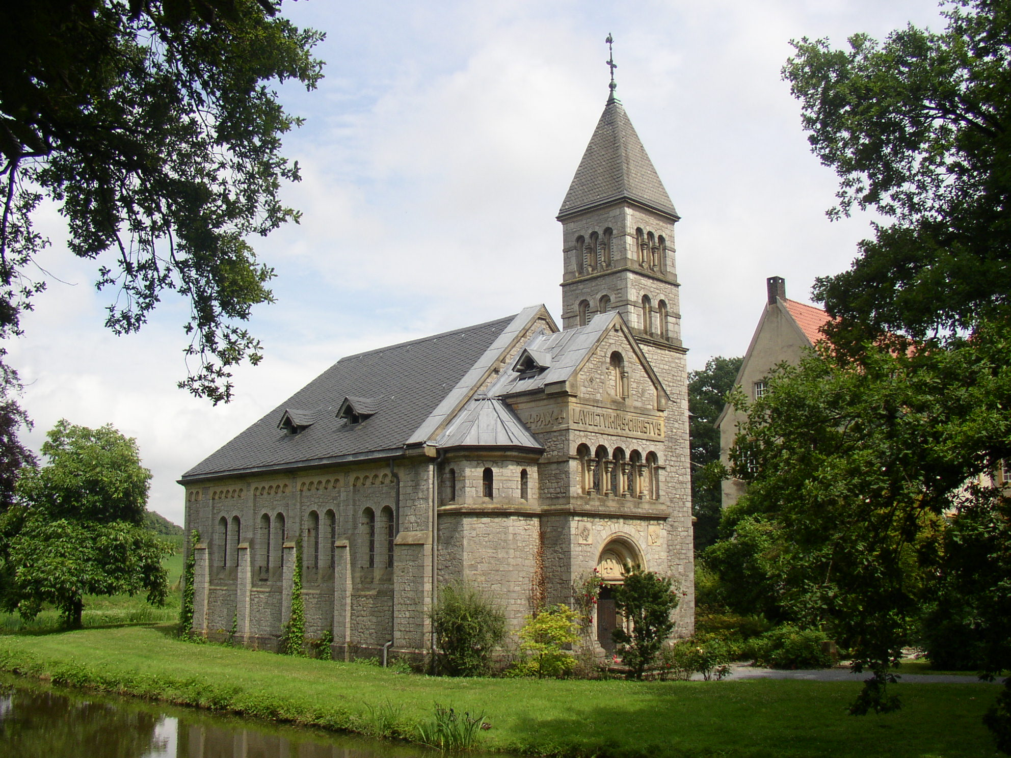 chapel of moated castle Brincke in Borgholzhausen, County of Gütersloh, Germany